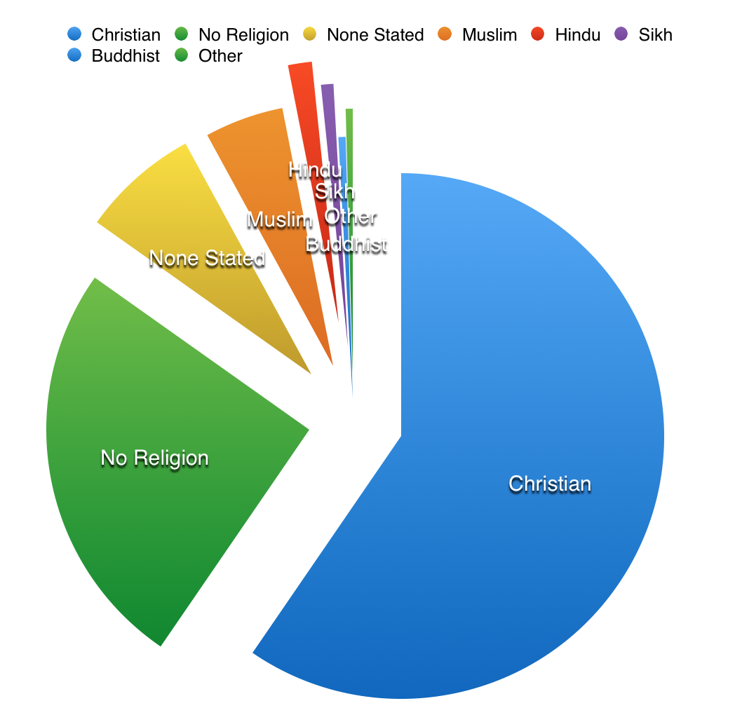 This chart shows the proportion of UK citizens responses with regards to their religion at the 2011 census.